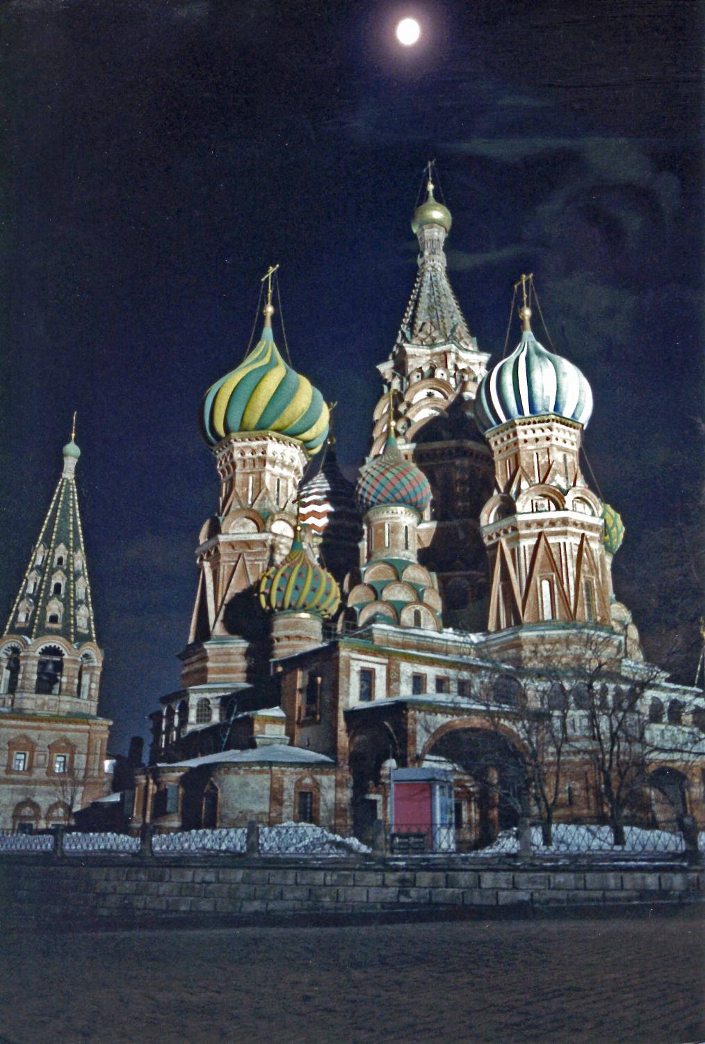 St. Basil's Cathedral, Moscow in winter.